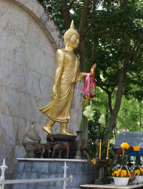 phaphutthaleela